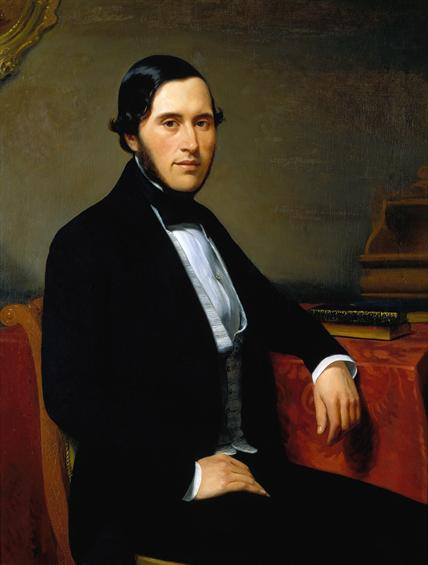 António de Almeida Coutinho e Lemos (1818-1869), 1st Baron of Seixo.